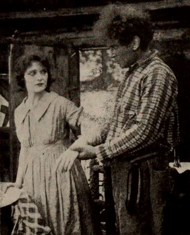 Still from the American drama film Code of the Yukon (1918) with Vivian Rich and Mitchell Lewis, on page 41 of the December 7, 1918 Exhibitors Herald.